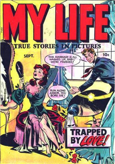 Cover of My Life True Stories in Pictures #4 (Sept 1948)